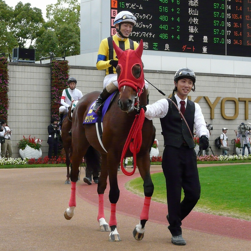 Makoto-Okabe20111023